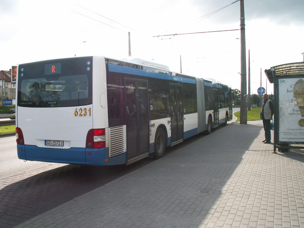 MAN NG313 Lion's City G bus (#6231) in Gdynia, Poland. Year built 2006, PKS Wejherowo operator.